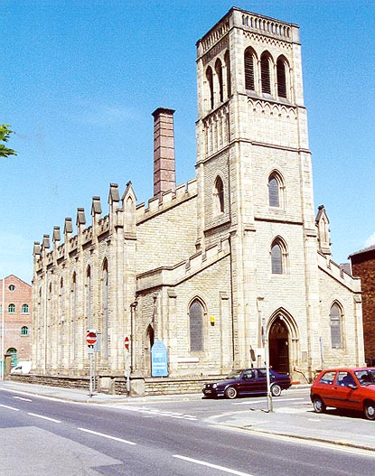 New Testament Church of God, Nursery Street, Sheffield, South Yorkshire, seen from the south. Built in 1848 as Holy Trinity parish church. The brick chimney is that of Aizlewood's Mill.